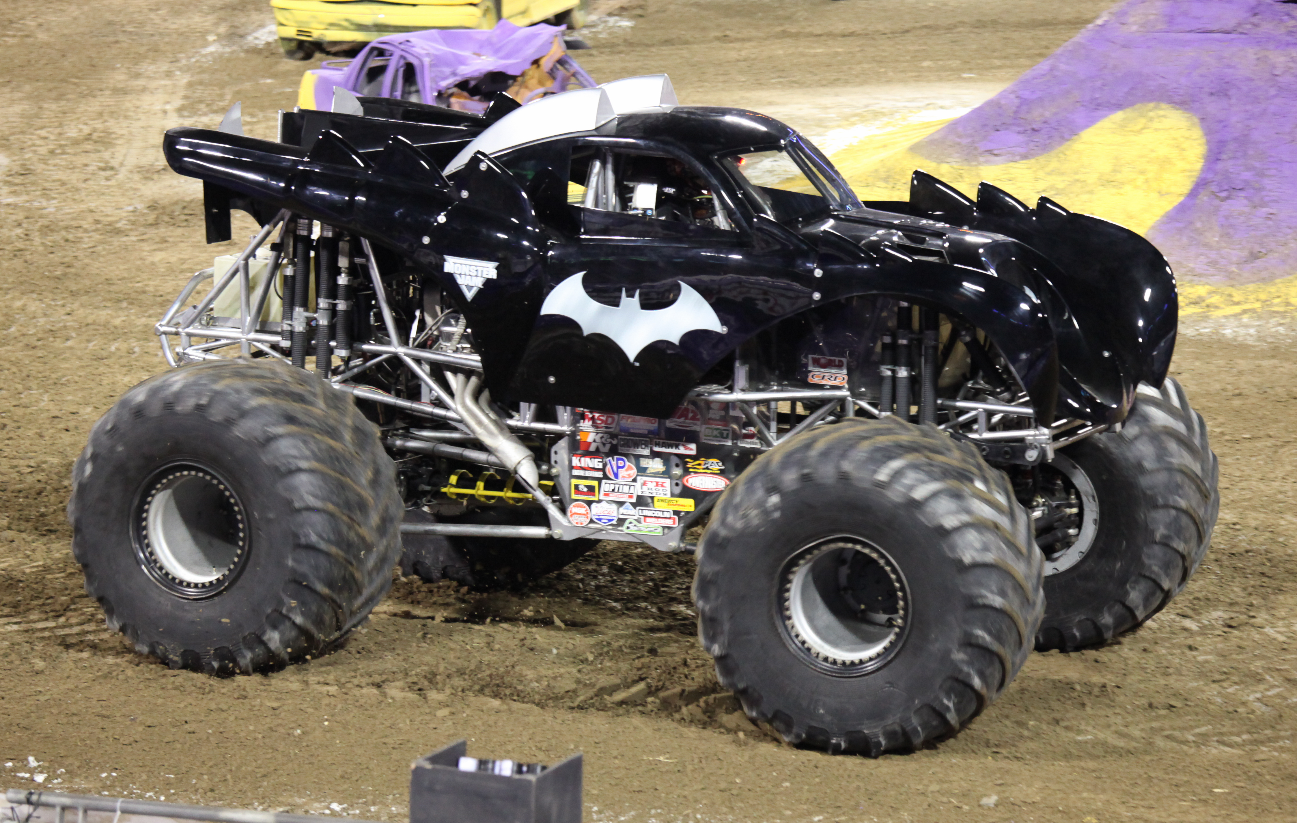 Batman